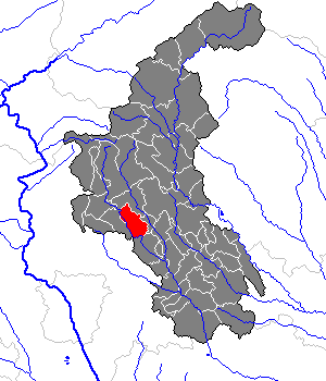 This map shows the area of the Gemeinde (municipality) Mortantsch in the Bezirk (district) Weiz, Styria, Austria.